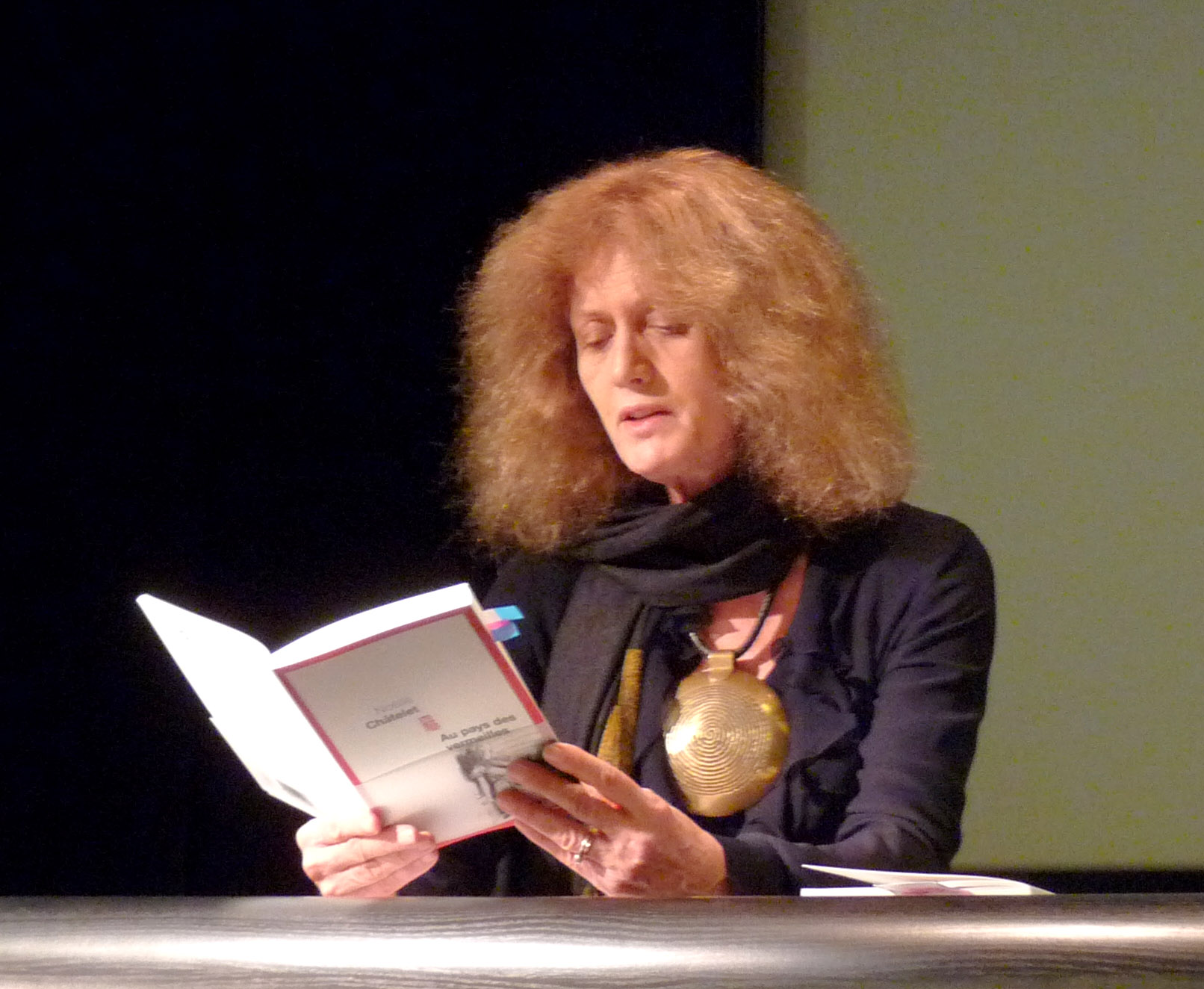 French writer Noëlle Châtelet